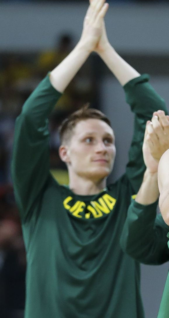 Marius Grigonis during the 2016 Summer Olympic Games in Brazil.